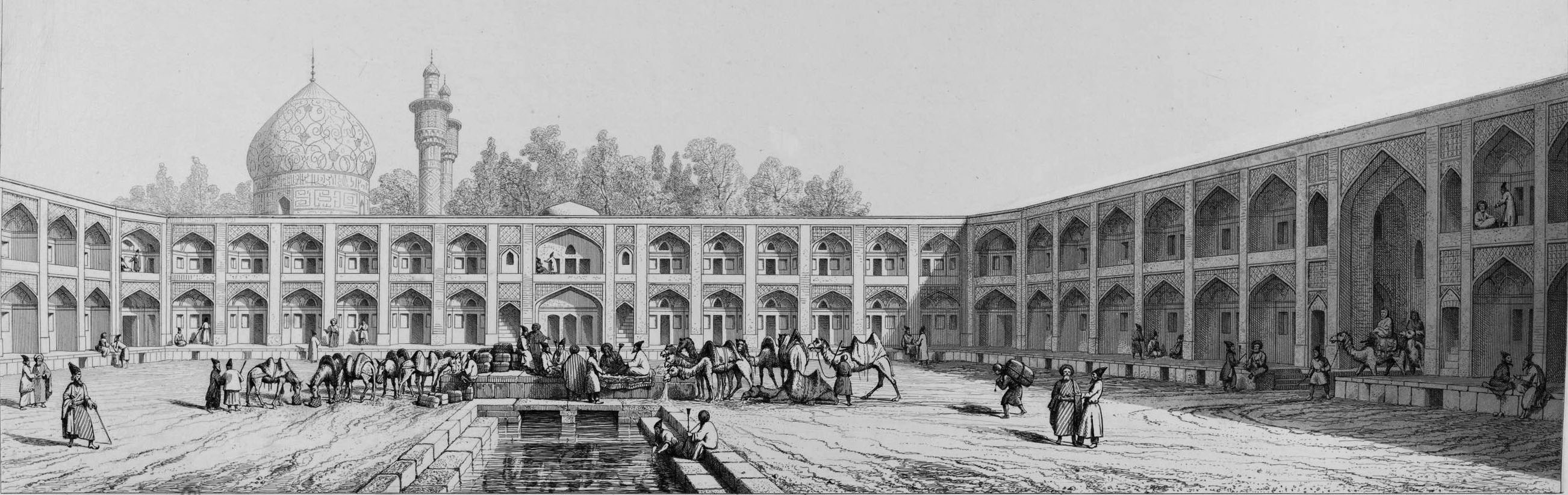 Caravanserai of mother of Shah Sultan Hussein